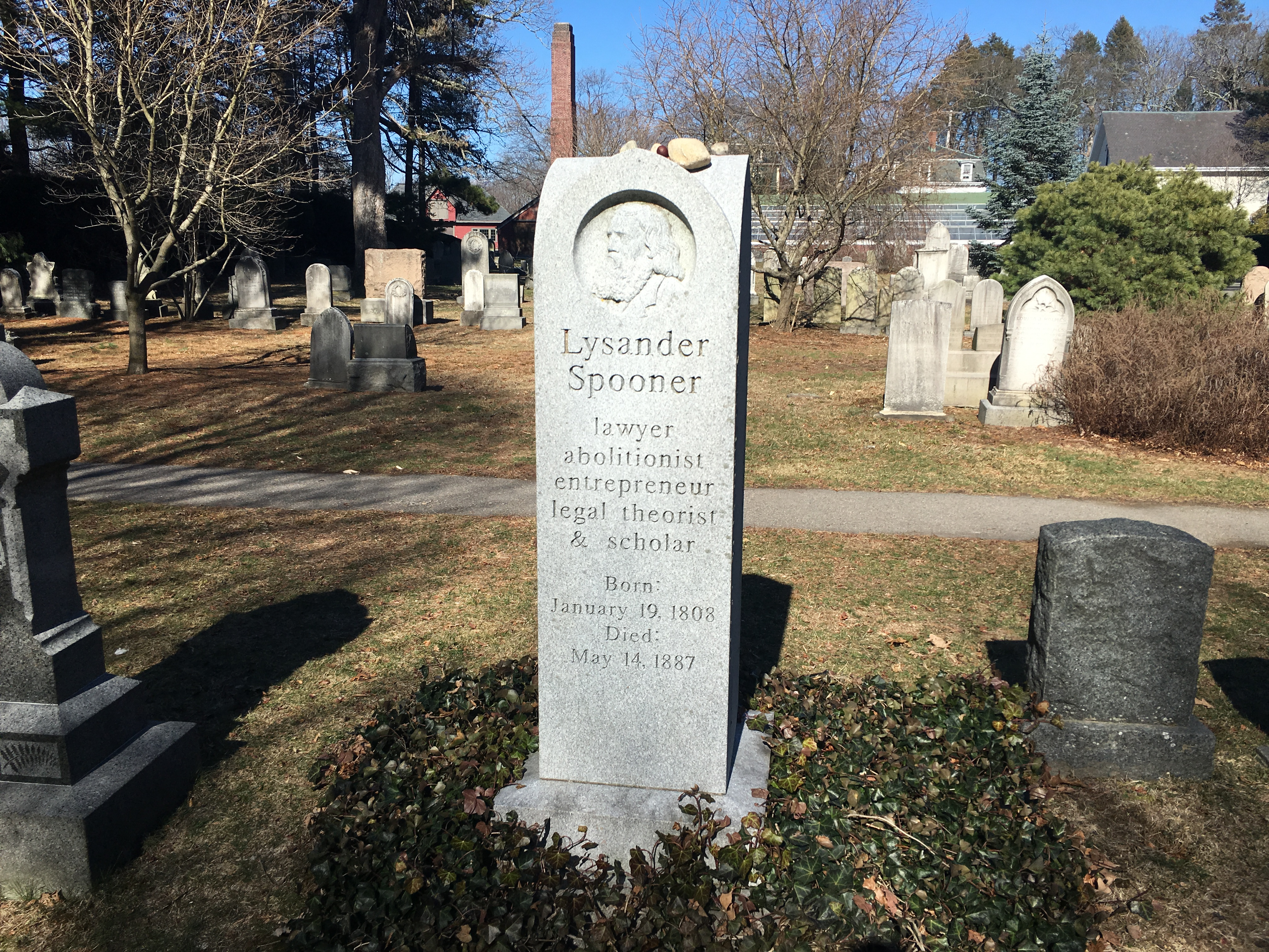 Forest Hills Cemetery in Jamaica Plain.